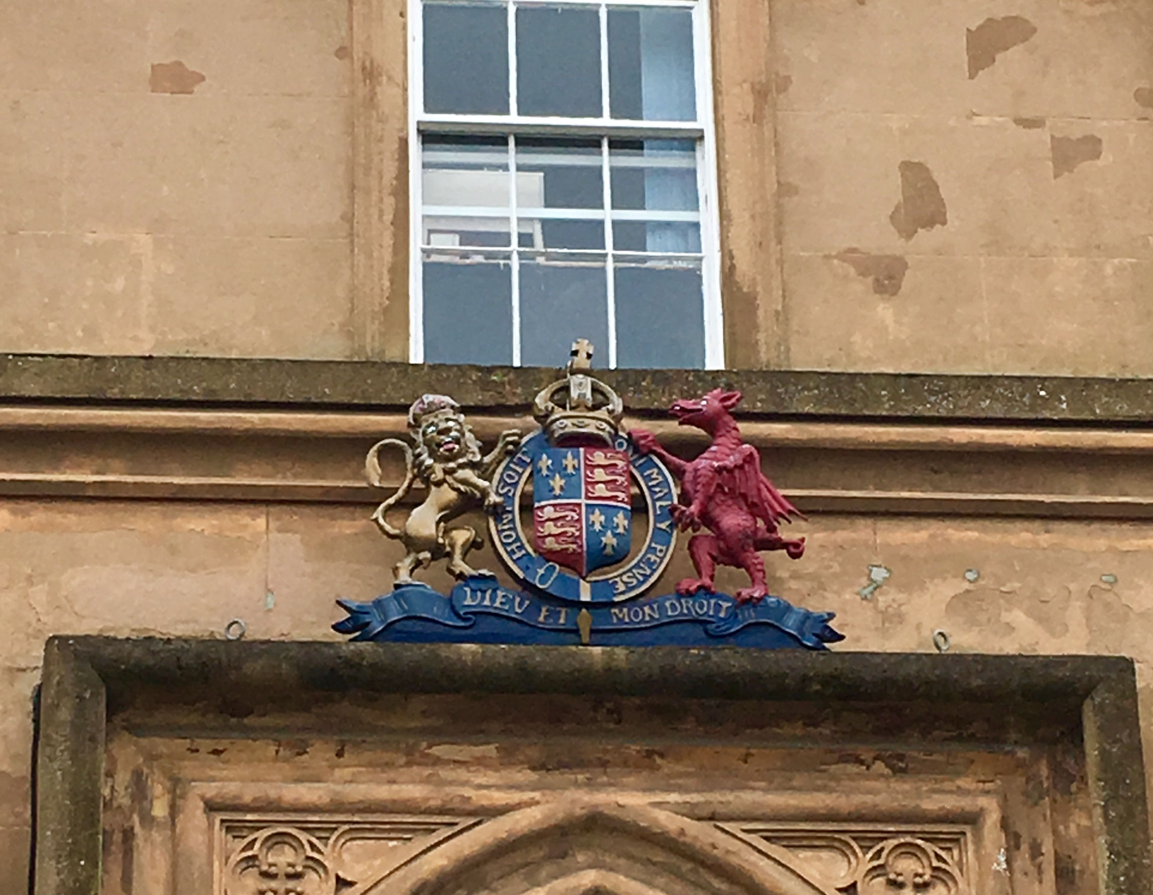 The coat of arms of Elizabeth I is displayed above the main entrance of the school.